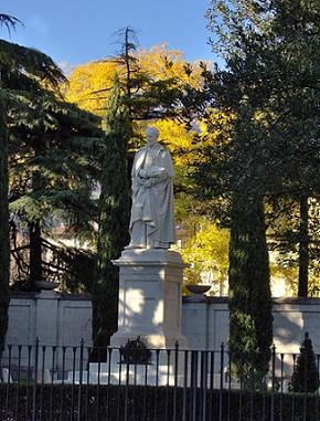 Monument of Antonio Rosmini in Rovereto, Trentino, Italy